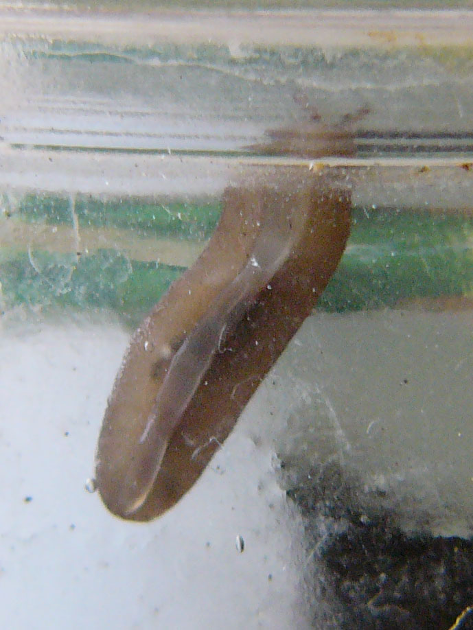 Foot of small 0,5 cm slug Laevicaulis alte (Férussac, 1822).